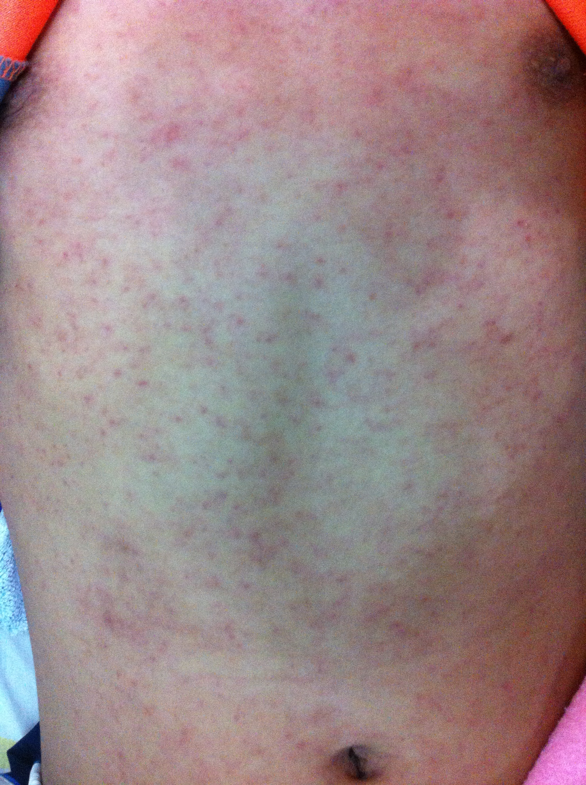 A case of the disease Chikungunya in The Philippines at Mindanao